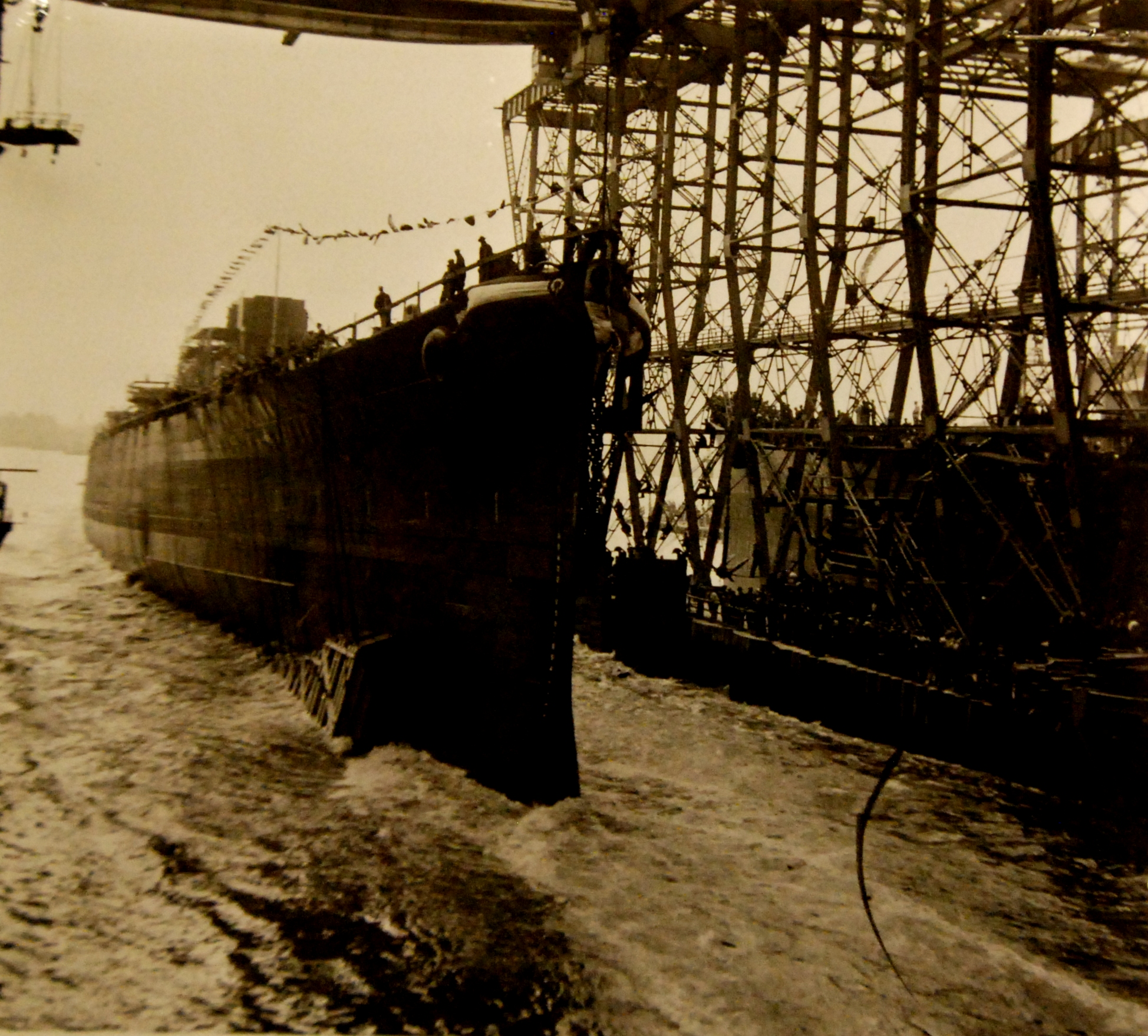 Lot 9431-3: Another 10,000-Tonner for U.S. Navy. USS Denver (CL 58), being launched, is shown sliding down the ways at the New York Shipbuilding Corporation, Camden, New Jersey, April 4, 1942. Office of War Information photograph. (10/2/2015).